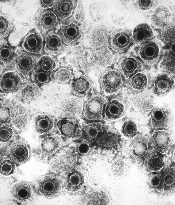 This negatively-stained transmission electron micrograph (TEM) revealed the presence of numerous herpes simplex virions, members of the Herpesviridae virus family. There are two strains of the herpes simplex virus, HSV-1, which is responsible for cold sores, and HSV-2, which is responsible for genital herpes. At the core of its icosahedral proteinaceous capsid, the HSV contains a double-stranded DNA linear genome. The Complication of Genital Herpes: Genital herpes can cause recurrent painful genital sores in many adults, and herpes infection can be severe in people with suppressed immune systems. Regardless of severity of symptoms, genital herpes frequently causes psychological distress in people who know they are infected. In addition, genital HSV can lead to potentially fatal infections in babies. It is important that women avoid contracting herpes during pregnancy because a newly acquired infection during late pregnancy poses a greater risk of transmission to the baby. If a woman has active genital herpes at delivery, a cesarean delivery is usually performed. Fortunately, infection of a baby from a woman with herpes infection is rare. Herpes may play a role in the spread of HIV, the virus that causes AIDS. Herpes can make people more susceptible to HIV infection, and it can make HIV-infected individuals more infectious.